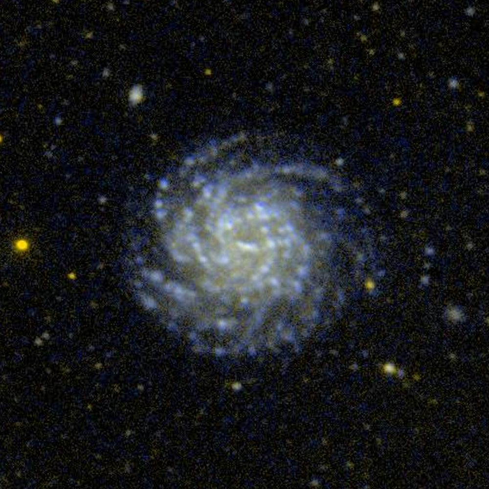 NGC 1493 galaxy by GALEX